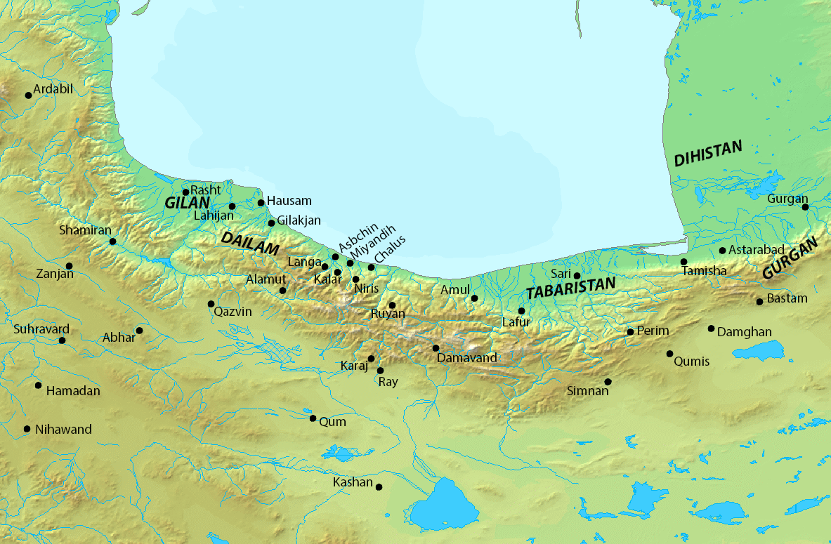 Map of the Caspian coast of Iran during the Iranian intermezzo. Map taken from DEMIS Mapserver, which is public domain, the rest is self-made.